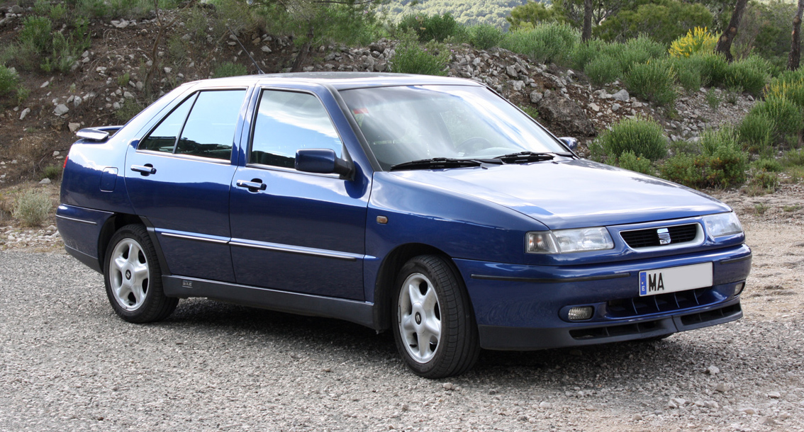 Seat Toledo MK1